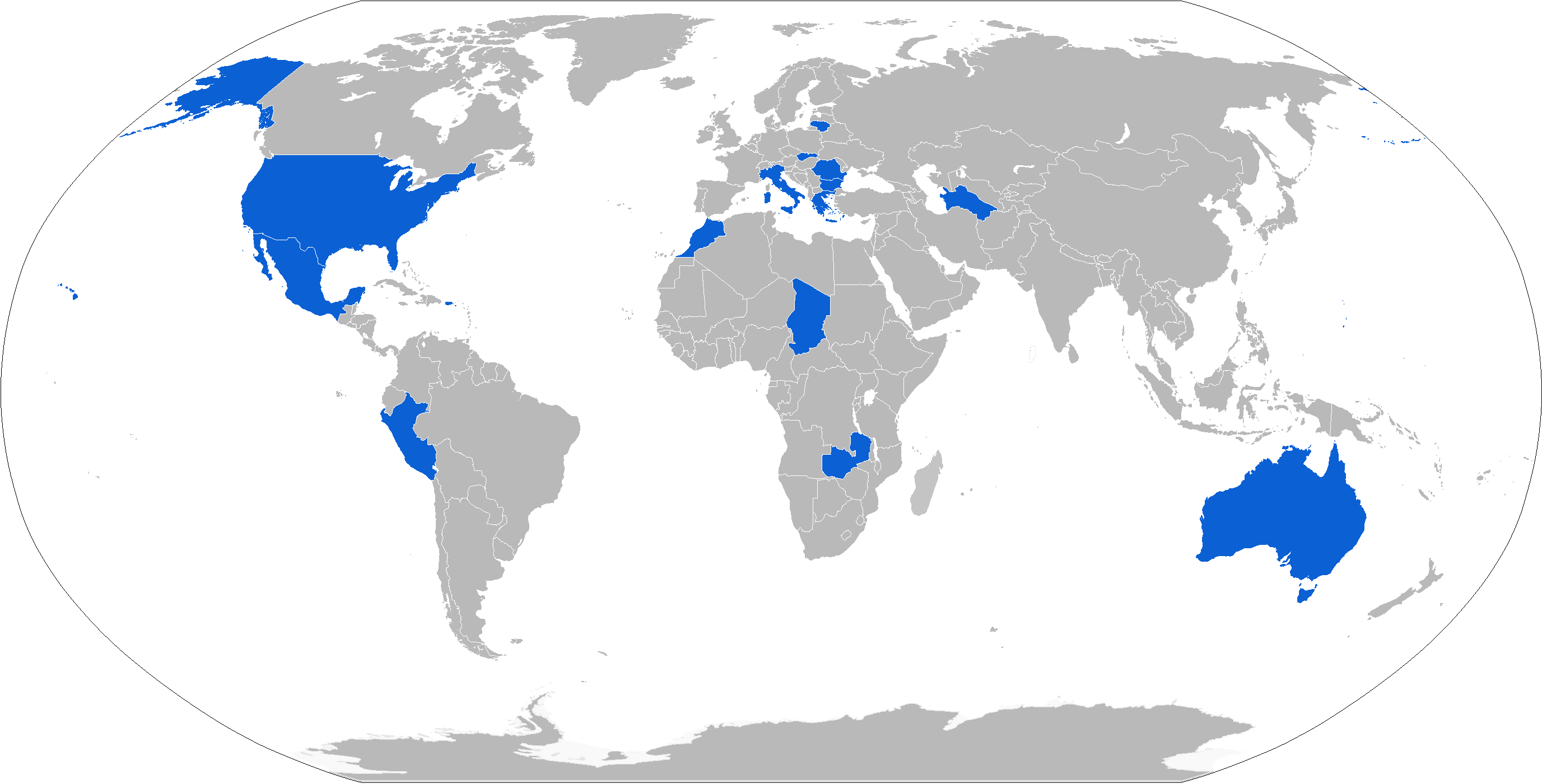 Map with C-27J operators in blue